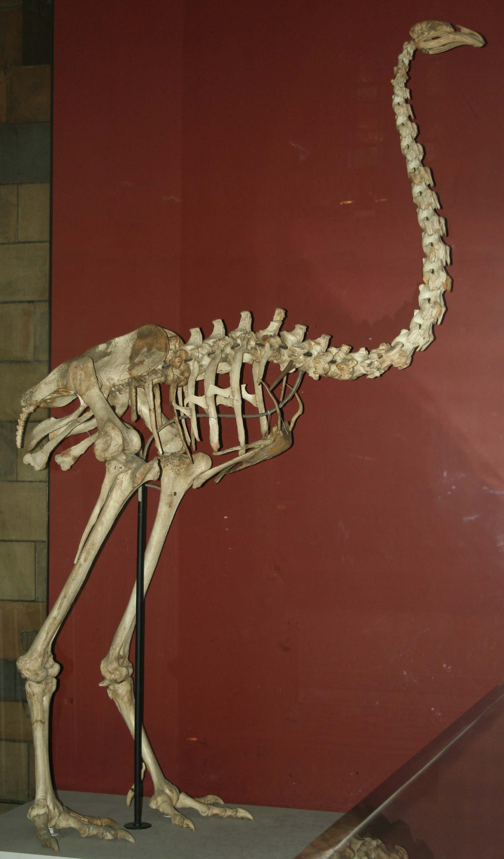 Mounted skeleton of a Dinornis maximus in the collection of the Natural History Museum in London. Catalogue number: PV A 608